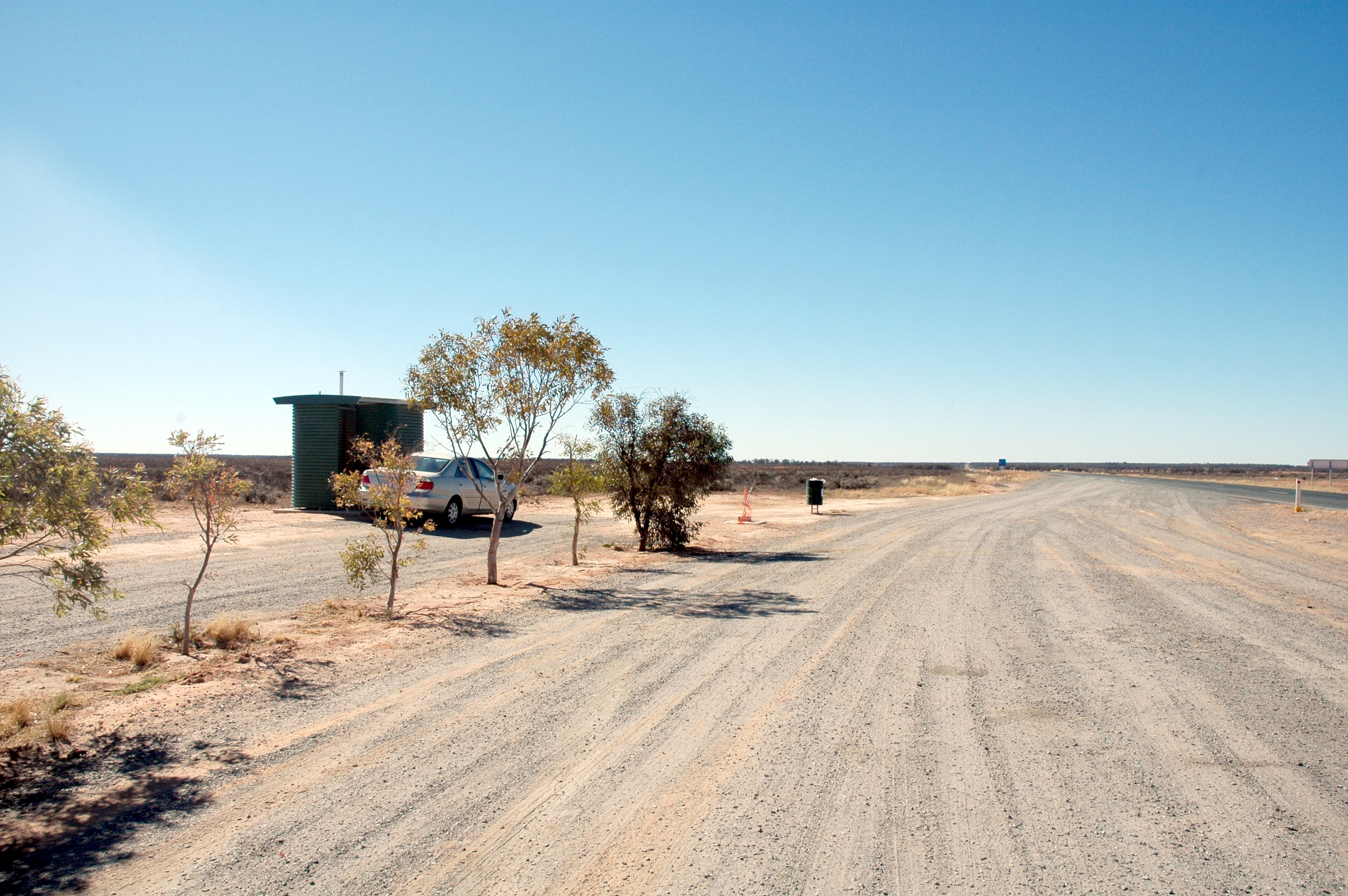 Typical terrain near roadside 'rest area' 20km north of Wentworth NSW Australia along Silver City Highway